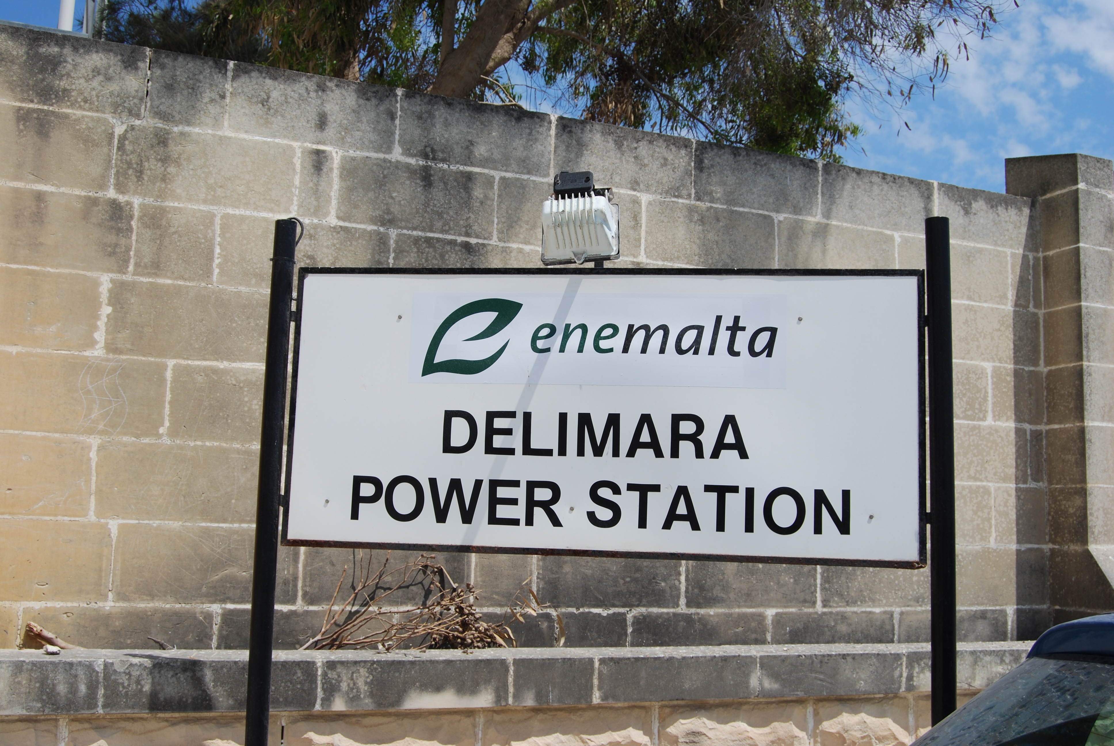 A sign of Enemalta in front of Delimara Power Station, Malta.